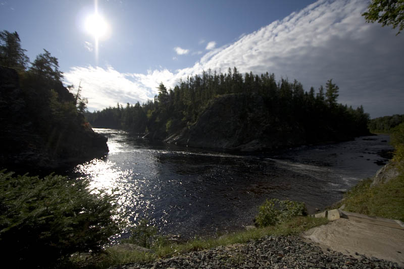 Salmon pool at the Square Forks, where the North Sevogle and South Sevogle Rivers meet and form the Sevogle River, New Brunswick, Canada